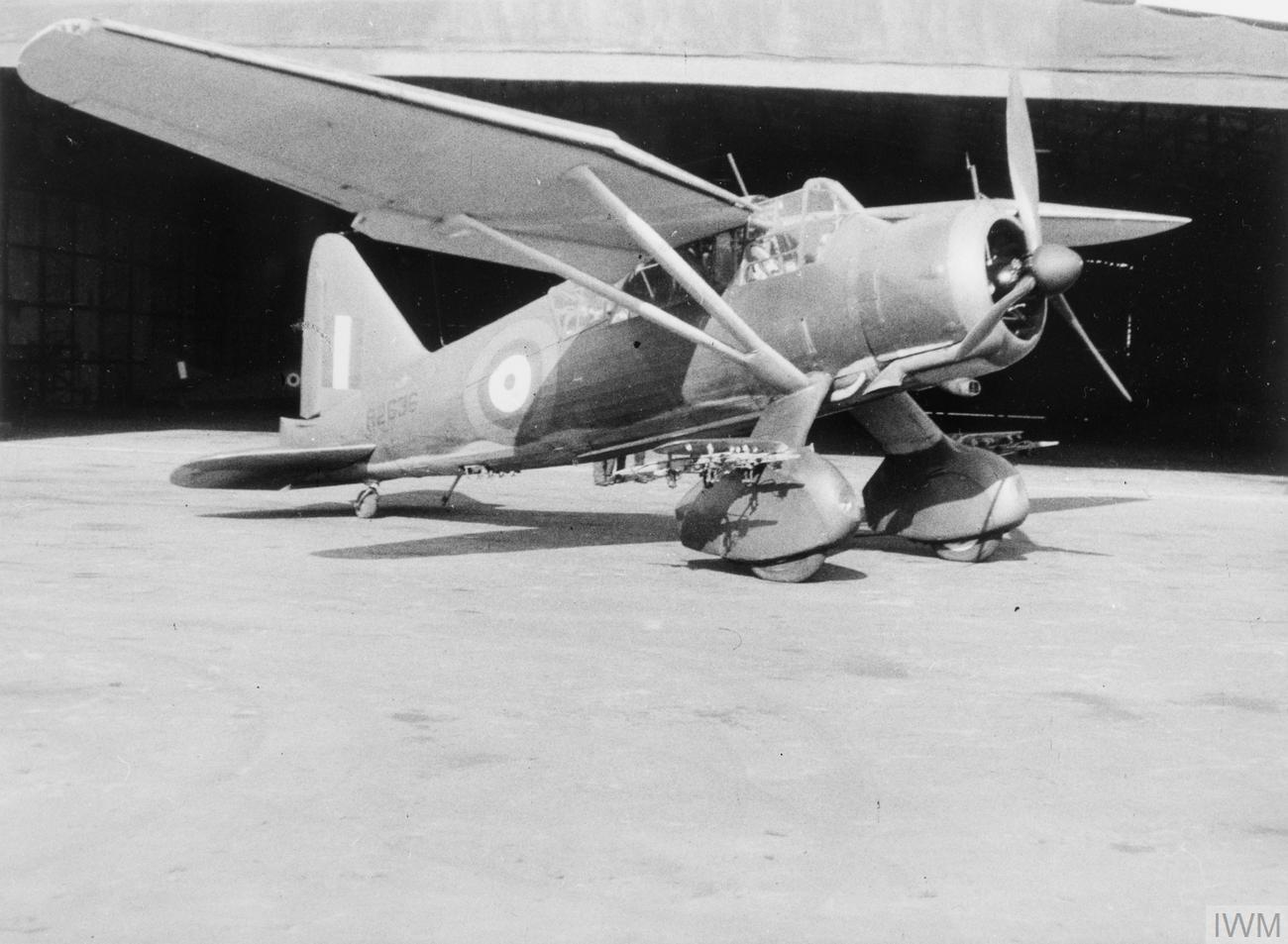 Westland Lysander Mark I, R2636, of No. 5 Group Communications Flight, parked outside a hangar at Spitalgate, Lincolnshire.